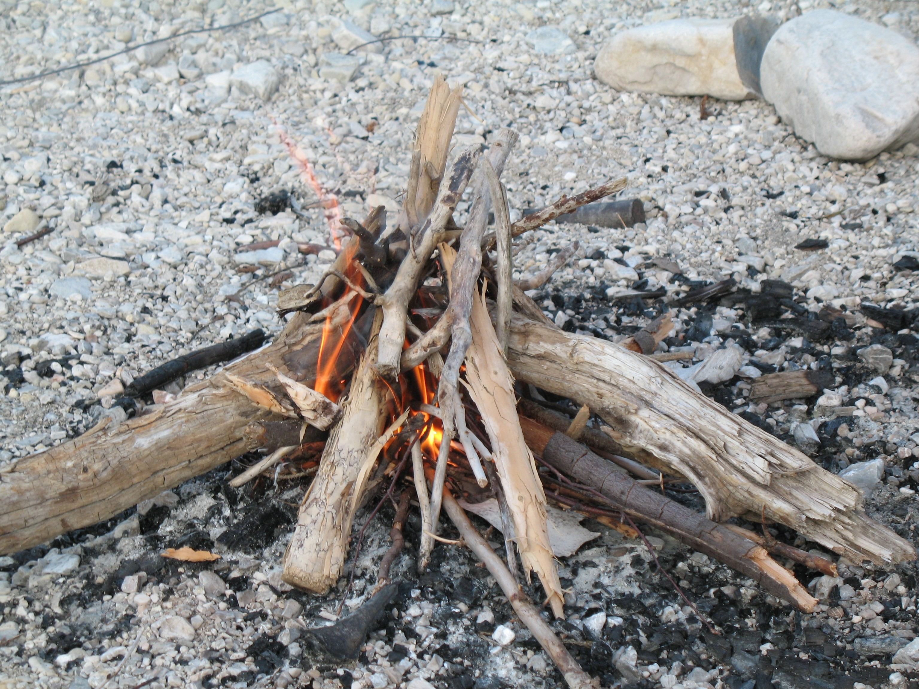 Wood fire in a dried-up river bed